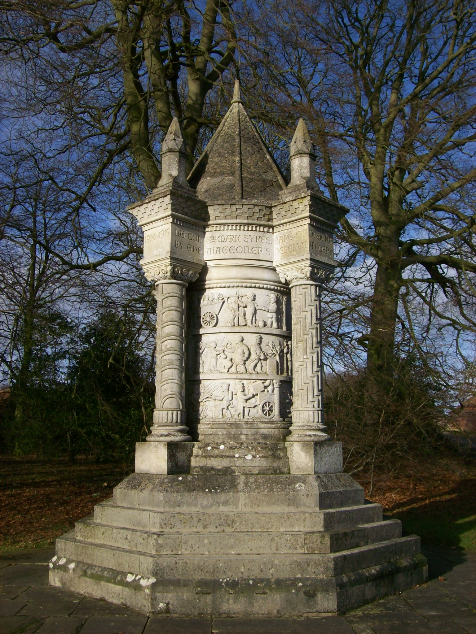 Waggoners' Monument, Sledmere, East Riding of Yorkshire, England.